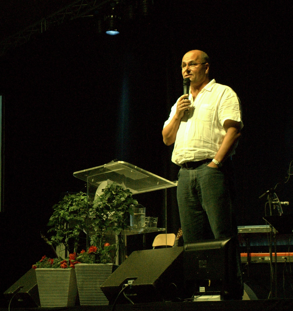 Photo of Egil Svartdahl at the Norwegian petecostal -movements summer camp at Hedmarktoppen outside Hamar in Norway.